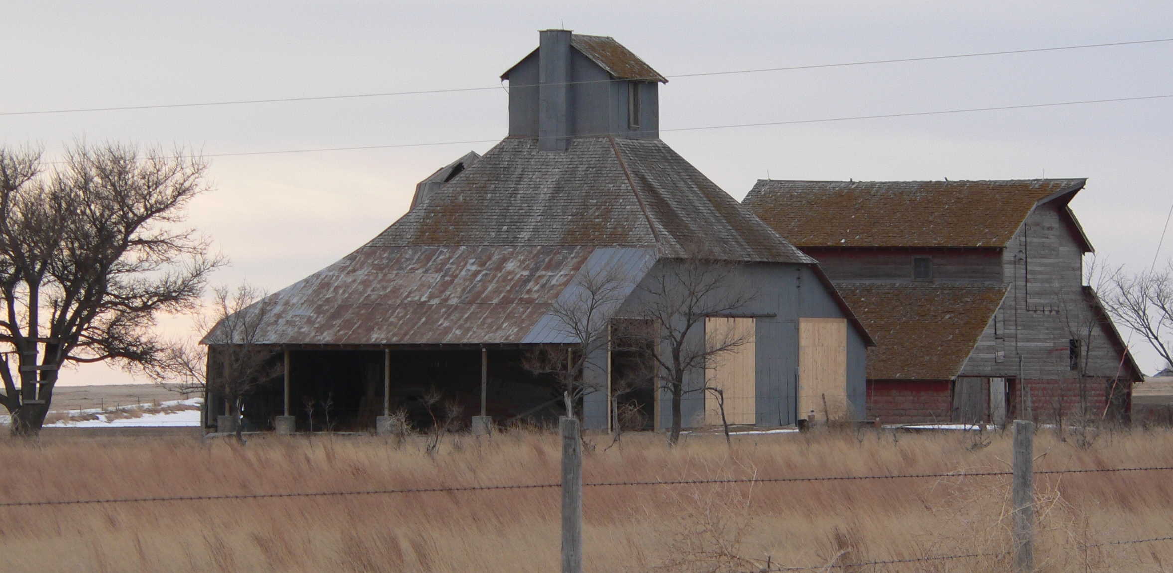 Menter farmstead, located on North Fork Road northwest of Big Springs, Nebraska. Barn and granary, seen from the northeast.